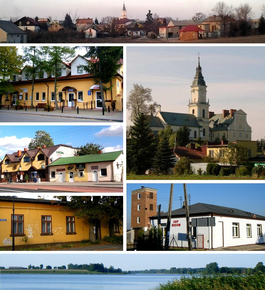 Brdów - village in central Poland: Brdów panorama, Health Center, St Adalbert's church, Restaurant/bank/shops, building of the Society of Friends of the Earth of Brdów, Fire Department, Lake Brdowskie.